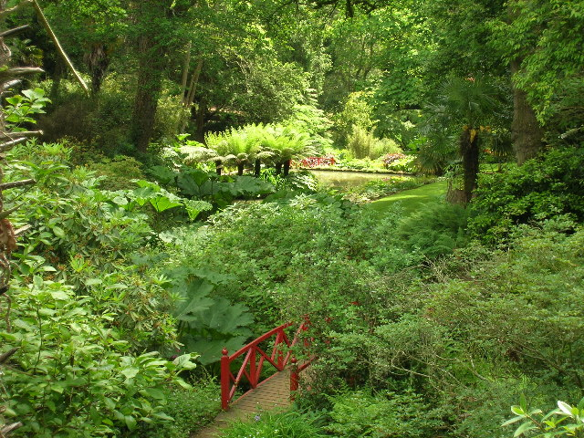 Abbotsbury. Sub tropical gardens near Abbotsbury, Dorset